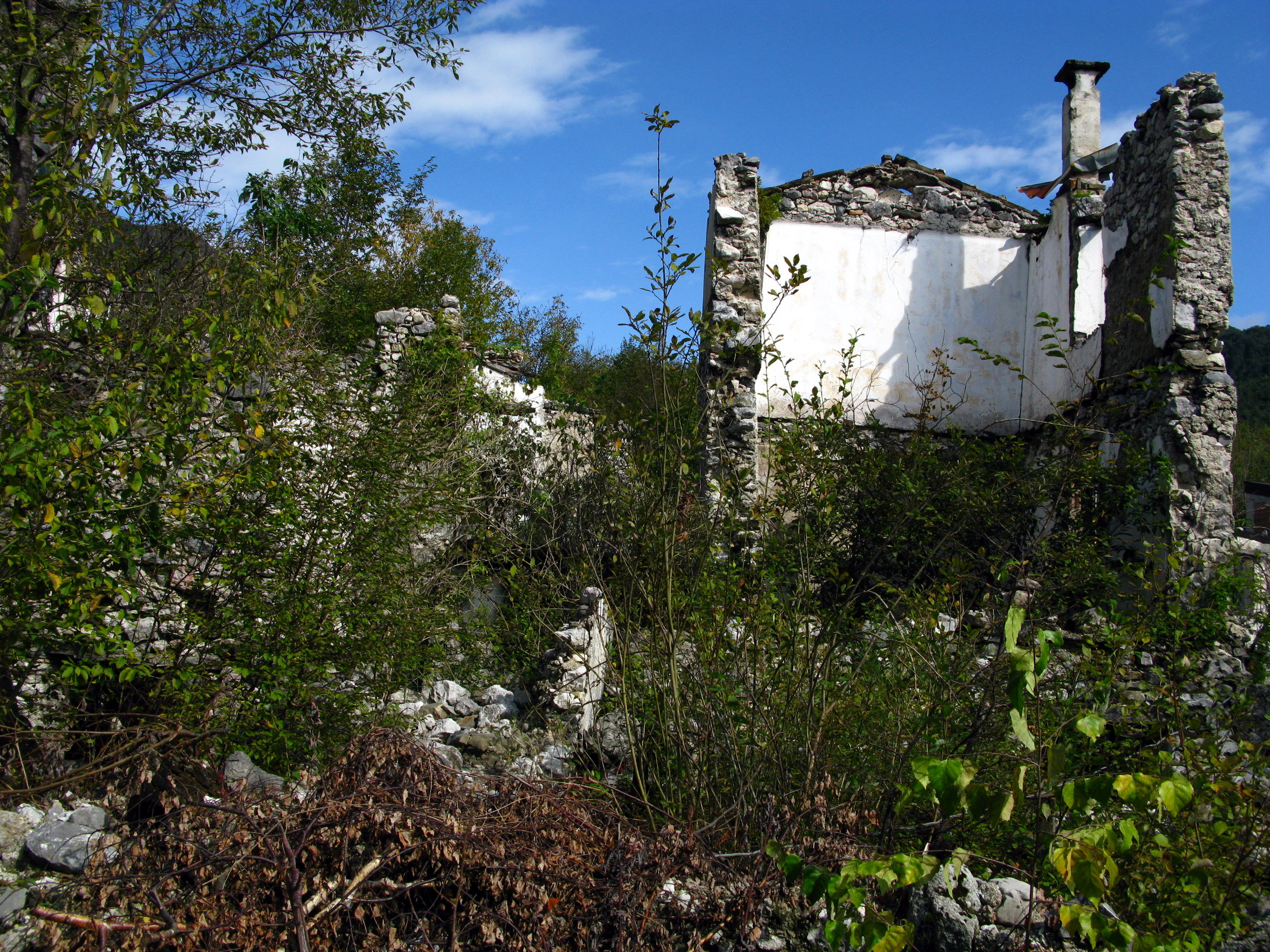 Decayed houses in Moggessa di Qua, a nearly abandoned village near Moggio Udinese / Friuli-Venezia Giulia / Italy / EU. Some houses were destroyed during the earthquakes of 1976.